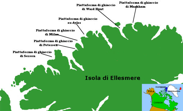 Ellesmere's ice shelves